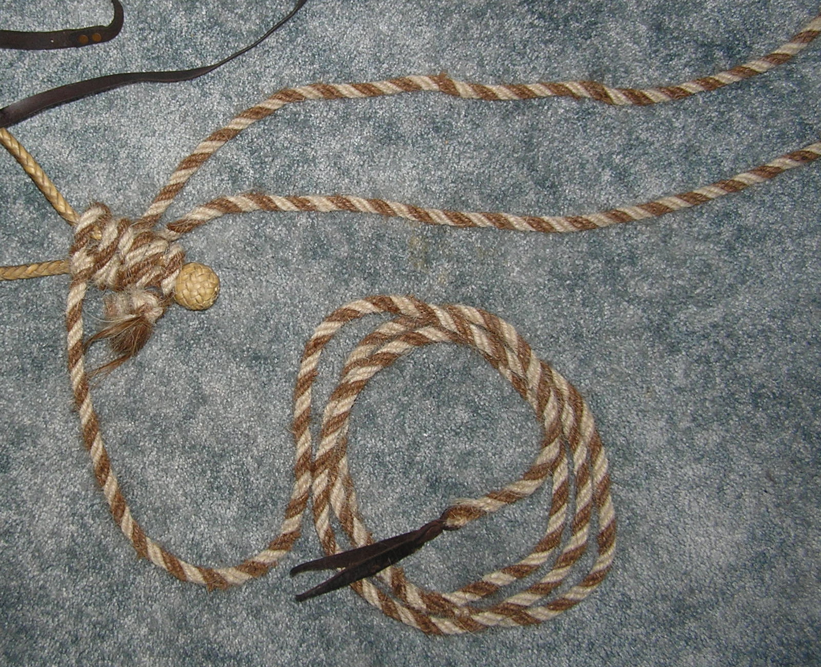 Traditional mecate for a hackamore made entirely of braided horsehair